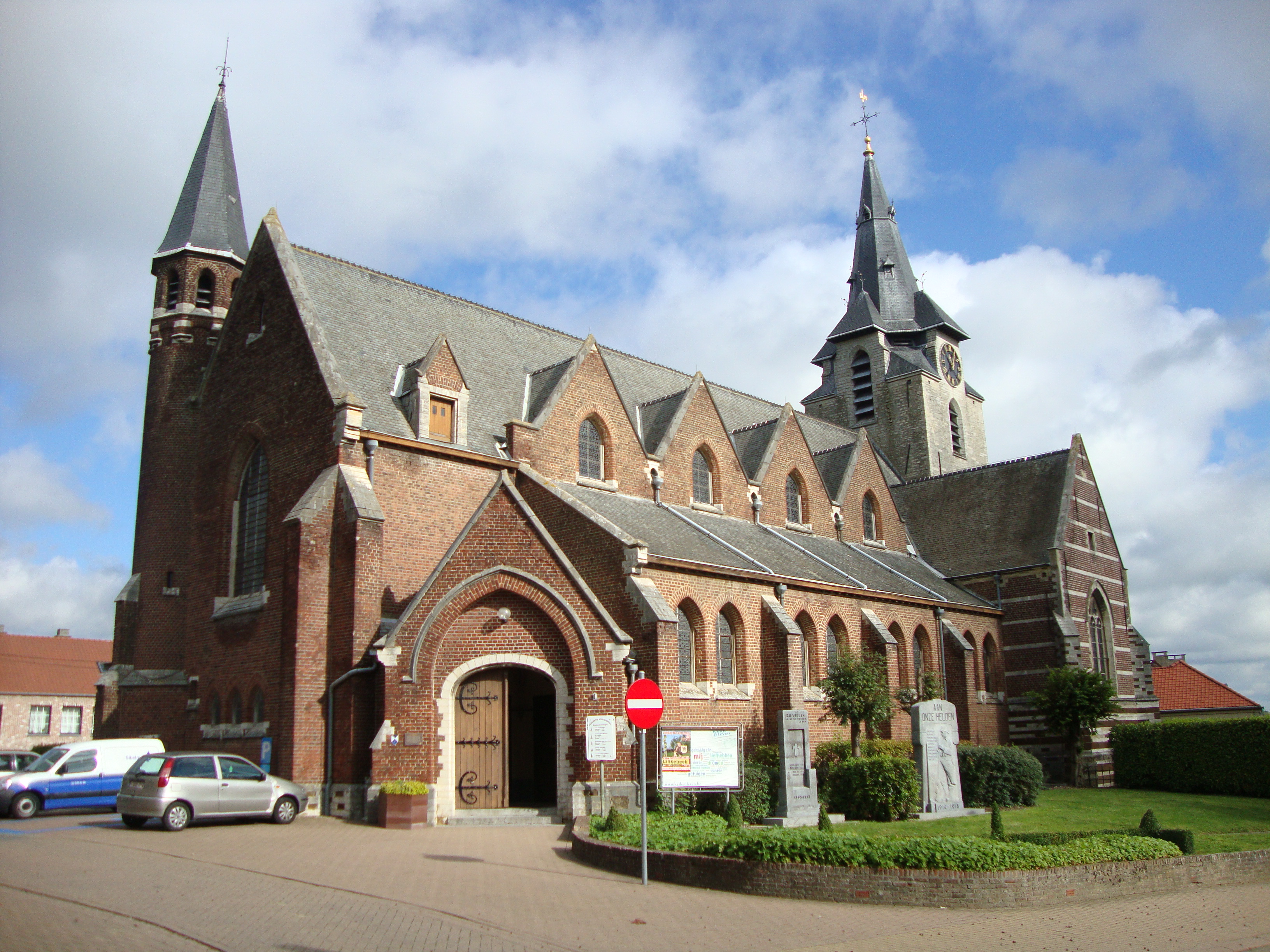 St. Martin of Tours parish of 13th, 16th, 18th and 19th centuries, Everberg